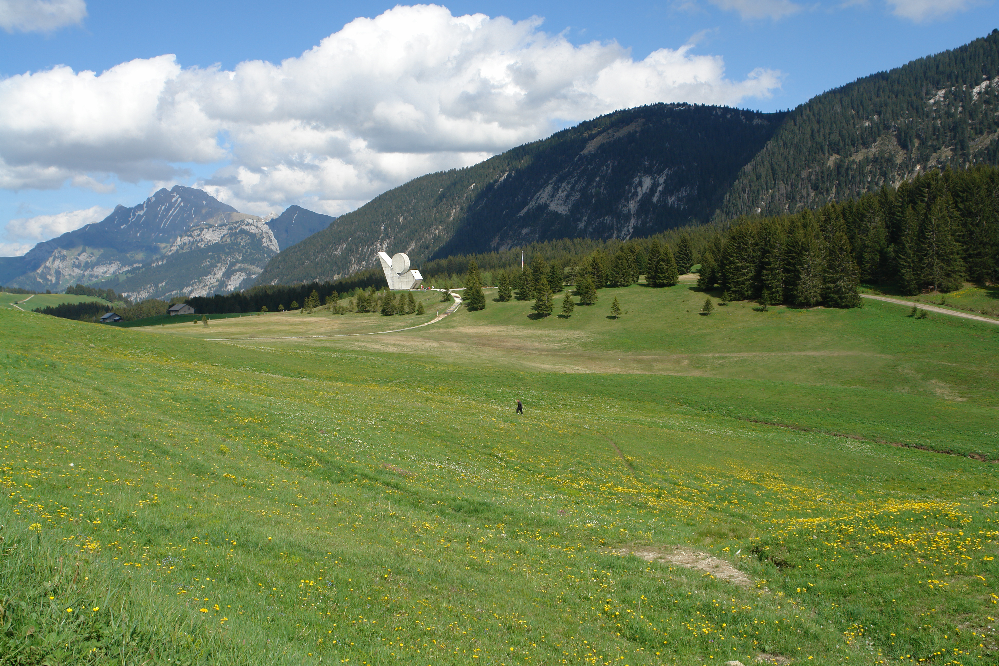 Glières plateau with the Resistance memorial.